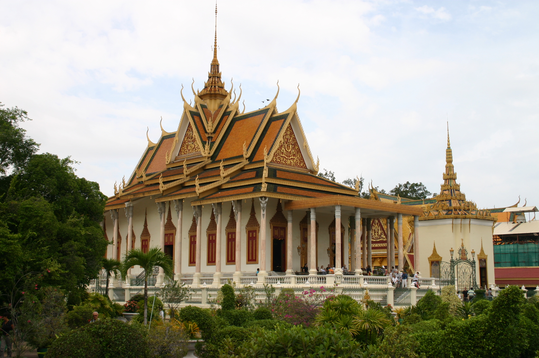 Silver pagoda in Phnom Penh